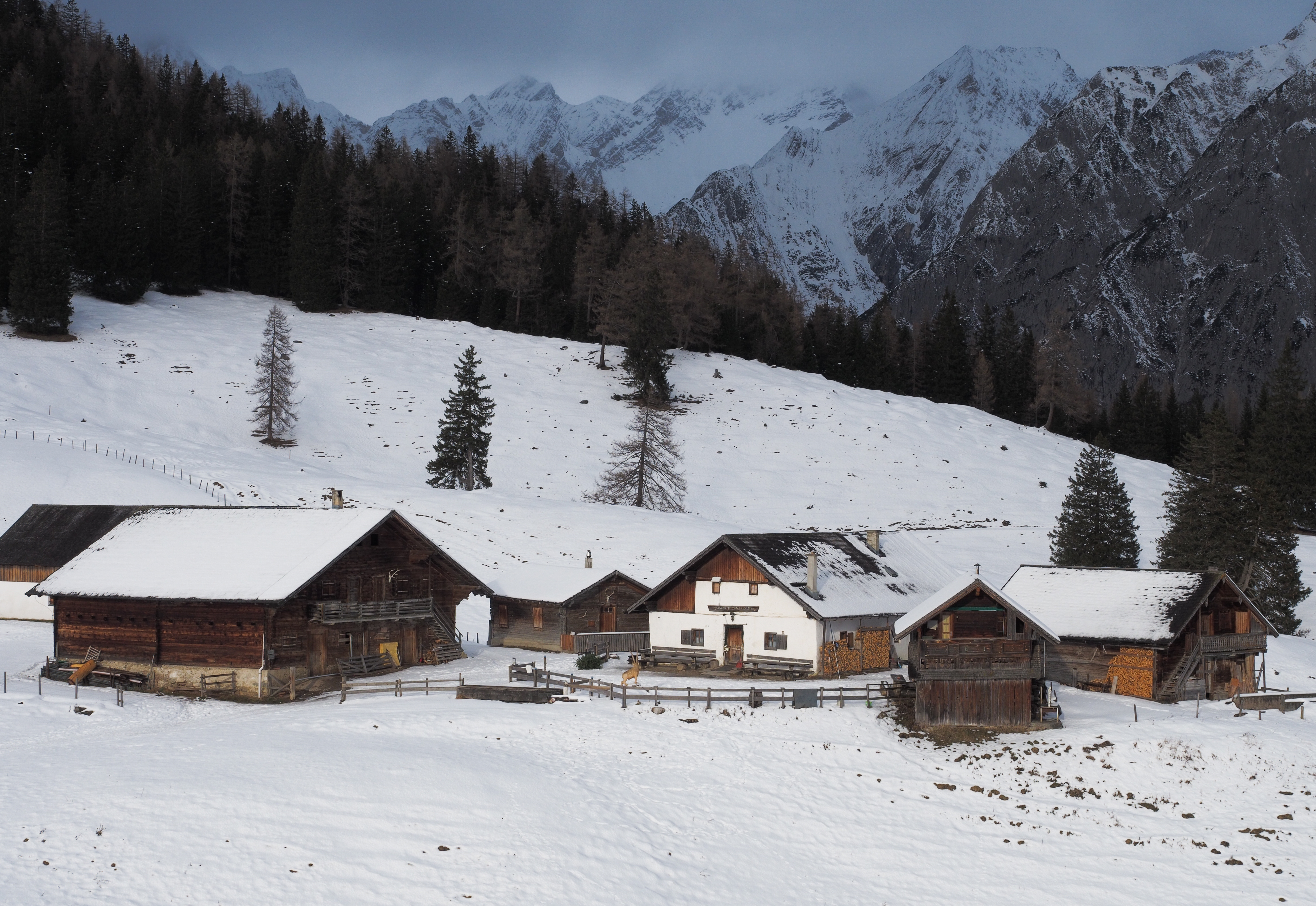 Blick auf die Walder Alm im Jänner 2016 This media shows the remarkable cultural object in the Austrian state of Tyrol listed by the Tyrolean Art Cadastre with the ID 60323.